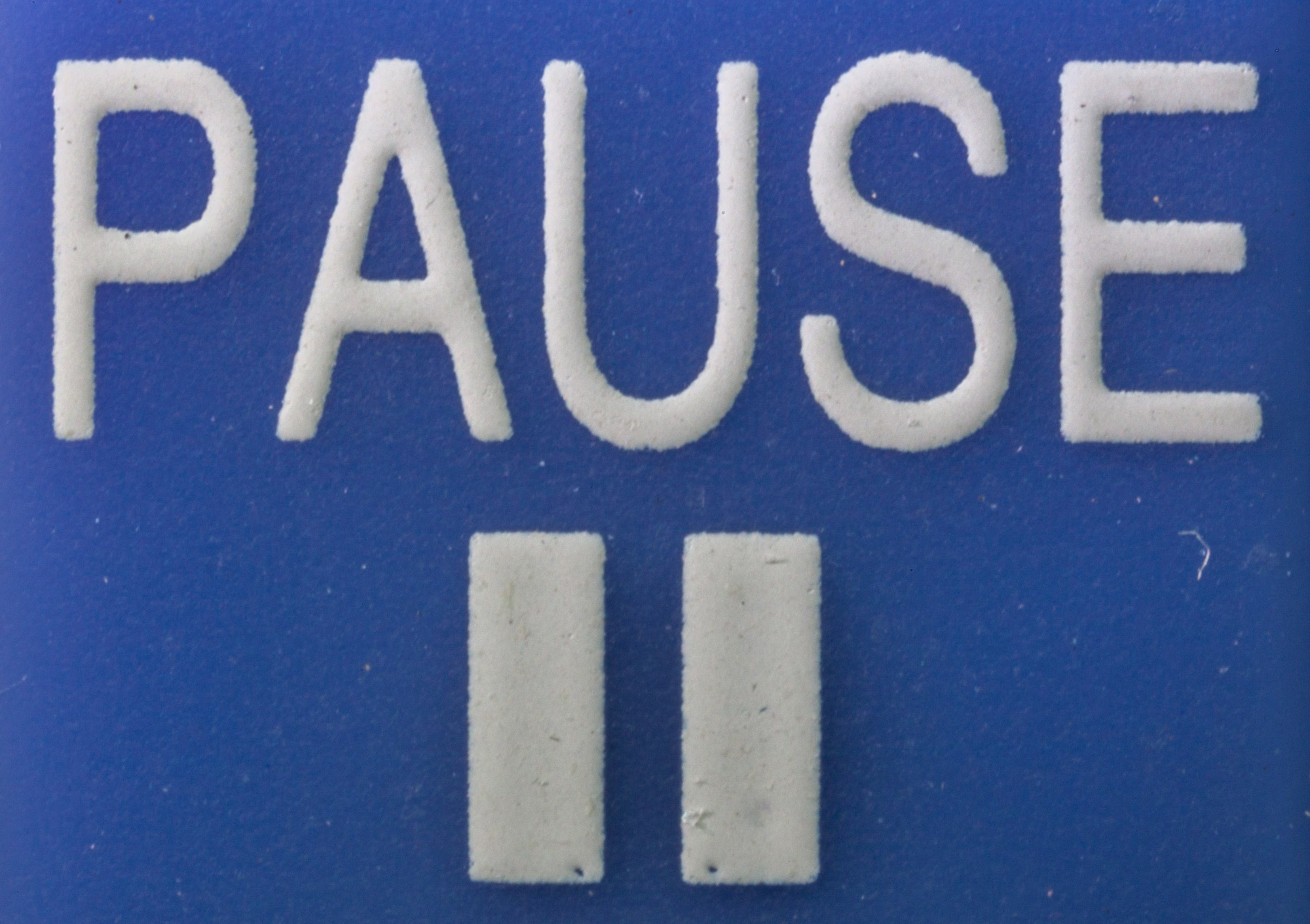 Macro photograph of the "PAUSE" button on a TV remote control